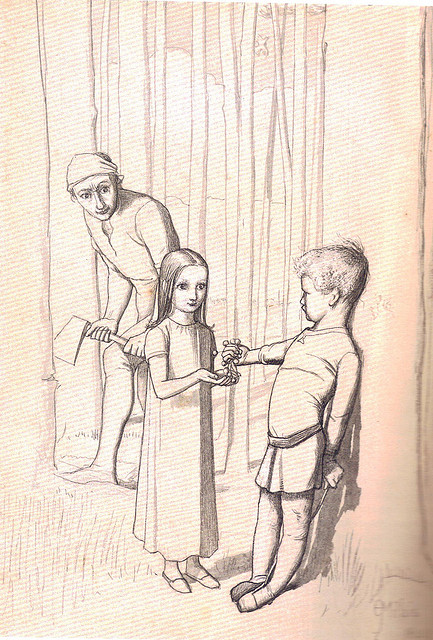 Woodmans_Daughter_study